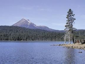 Lake of the Woods with Mount McLaughlin in the background, Upper Klamath River Basin, Klamath County, Oregon.